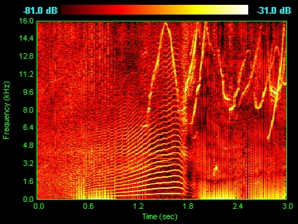 Cacaphony of Dolphins ... Spectrogram of their Clicks, Whistles, and whines.